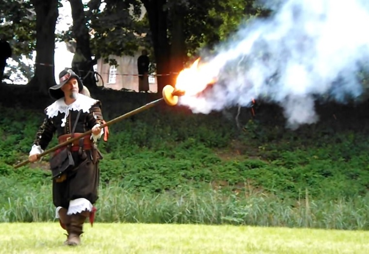 A reconstructed burning fire lance in action on the museums event 400 years Emdenr Wall in Emden, Germany, in June 2016